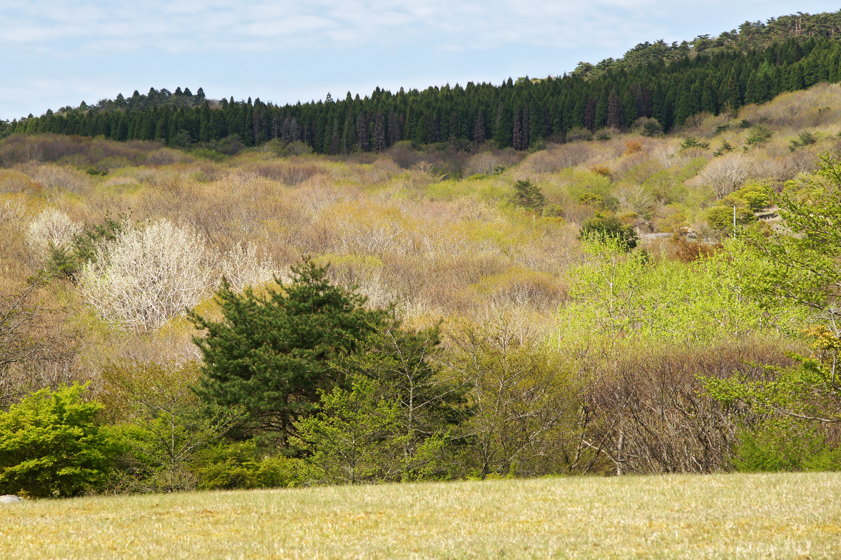 Mineyama highlands in Kamikawa, Hyogo prefecture, Japan.